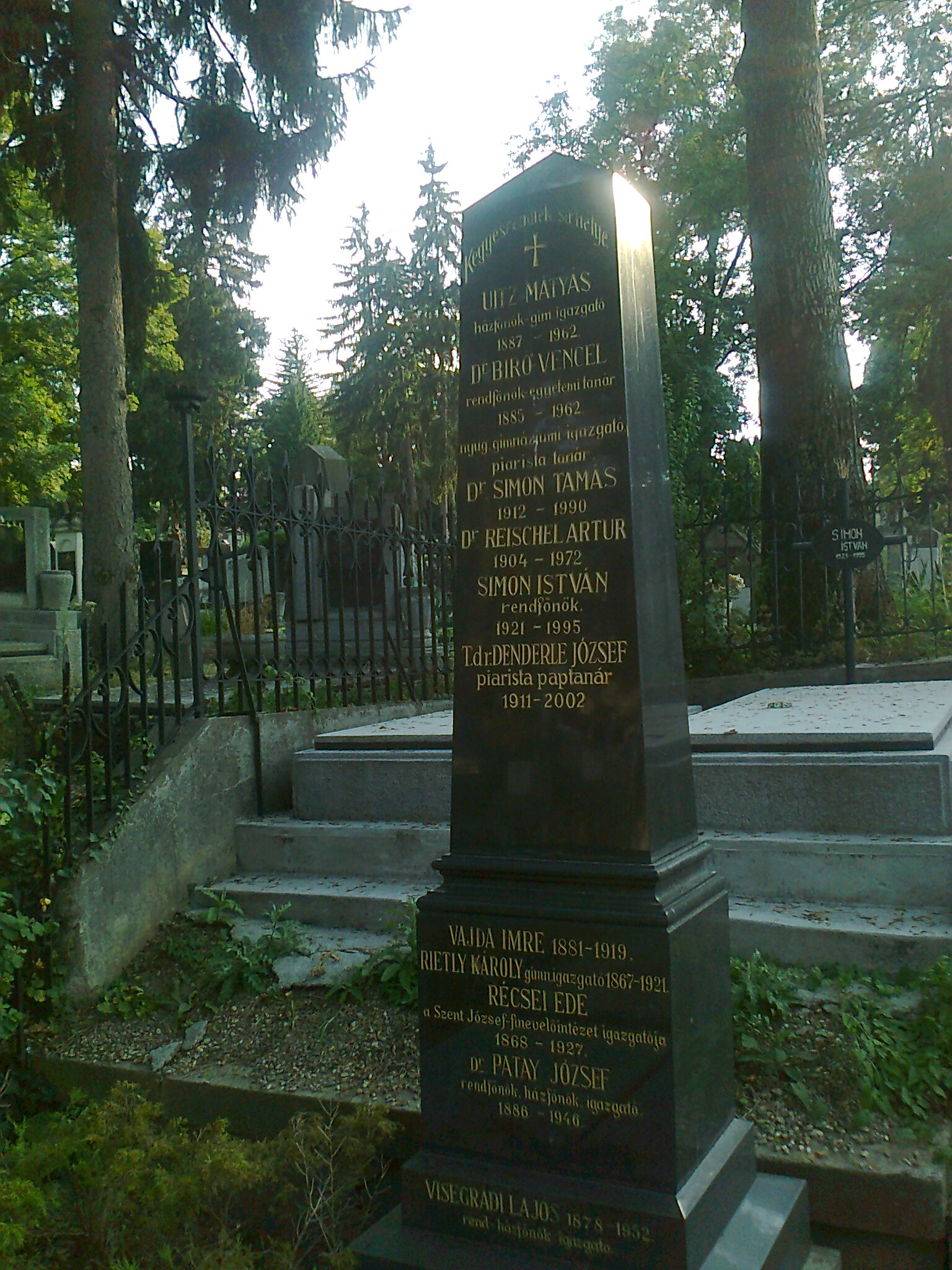 Thob of professor Vencel Bíró in Házsongárd Cemetery